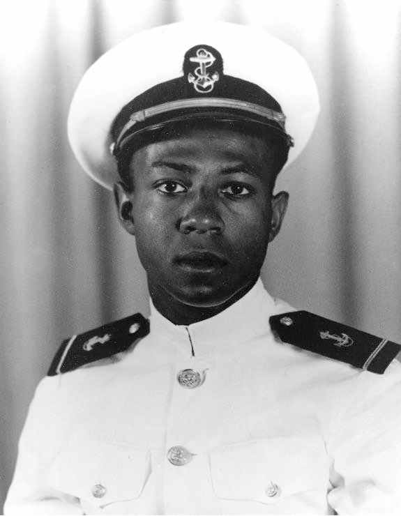 Midshipman Jesse L. Brown, USN Photographed at Naval Air Station, Jacksonville, Florida, October 1948, while serving as a Naval Aviation Cadet.